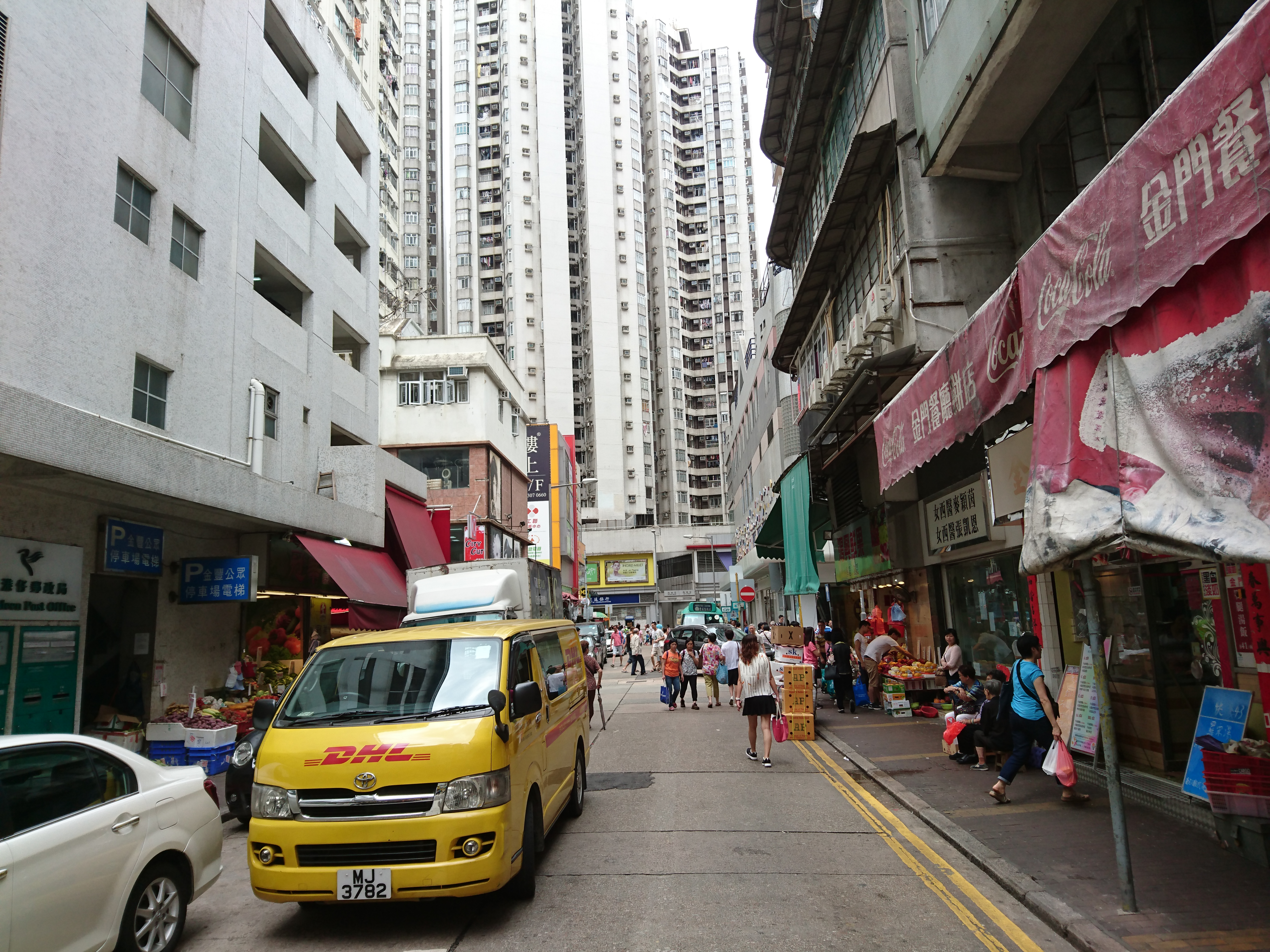 Sai On Street